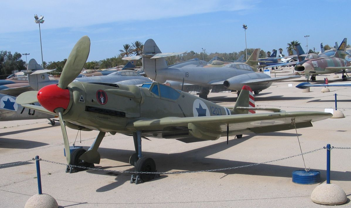 Description: Avia S-199 at Muzeyon Heyl ha-Avir, Hatzerim, Israel. 2006. Source: Photo by me, User:Bukvoed.